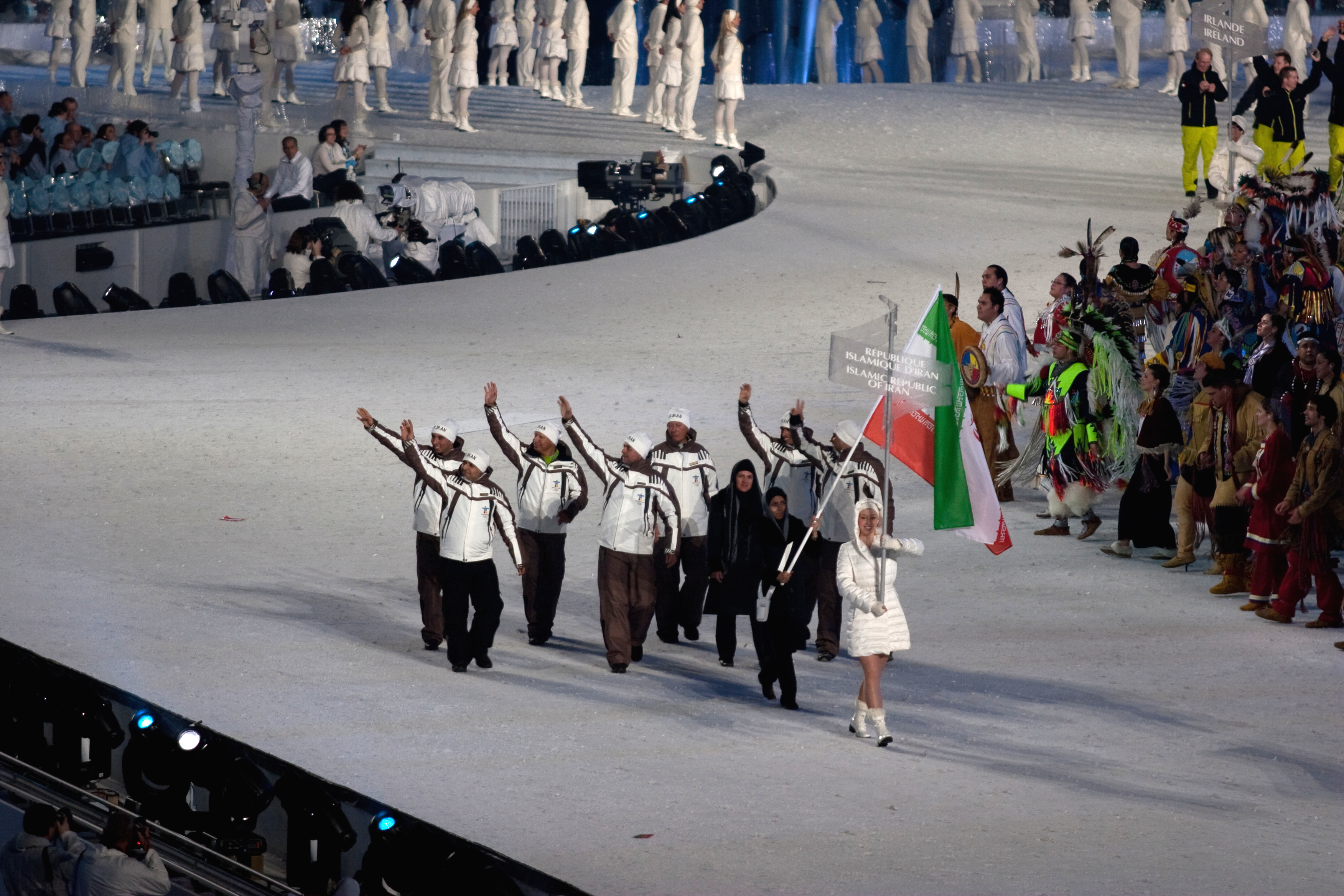 The athletes from Iran entering the stadium at the opening ceremonies of the 2010 Winter Olympics. Marjan Kalhor, the first woman to represent Iran at the Winter Olympics, is the flagbearer.